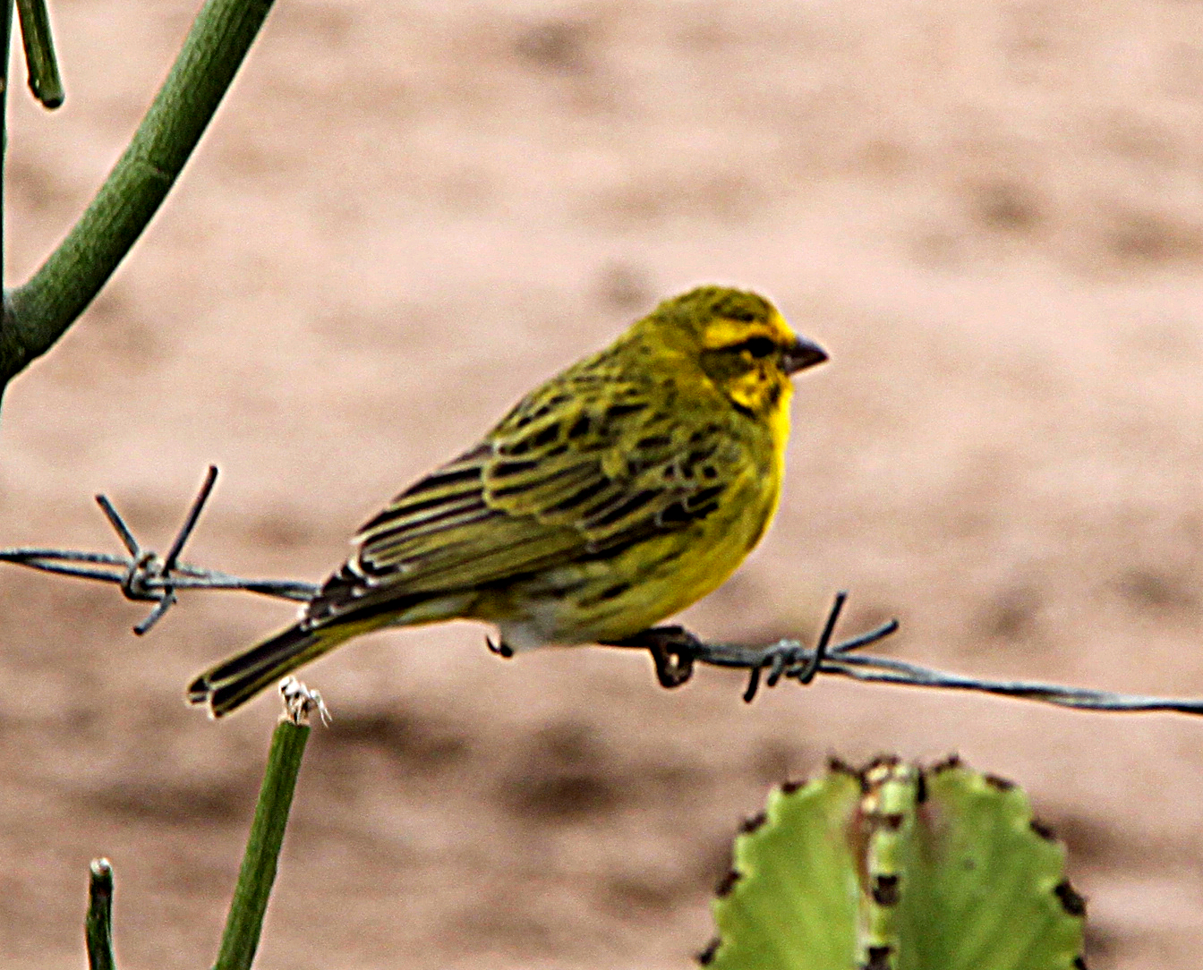 White-bellied canary, Crithagra dorsostriata, photographed at Manyatta Camp, at the edge of Maasai Mara National Park, Kenya